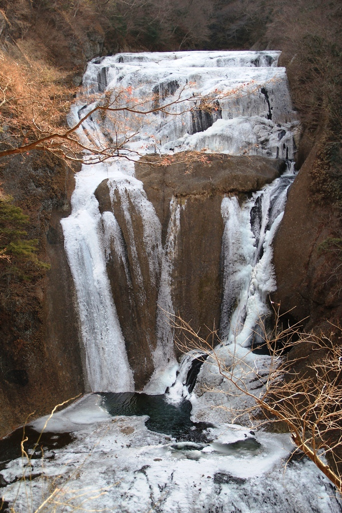 Fukuroda waterfalls in Daigo Town, Ibaraki Prefecture, Japan